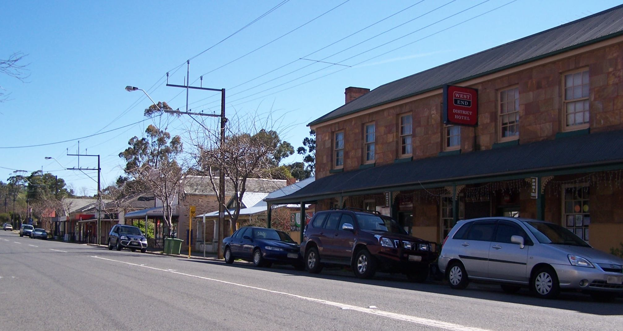 The Nairne Main Street Modified to remove licence plates. Photographed by on 1 September 06 using a Kodak EasyShare Z7590 at 3.1mp